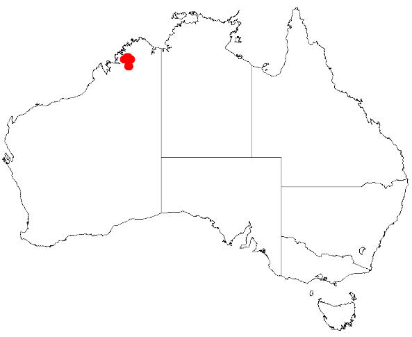 Acacia kimberleyensis Occurrence data from Australasia Virtual Herbarium downloaded from on 8 December 2018